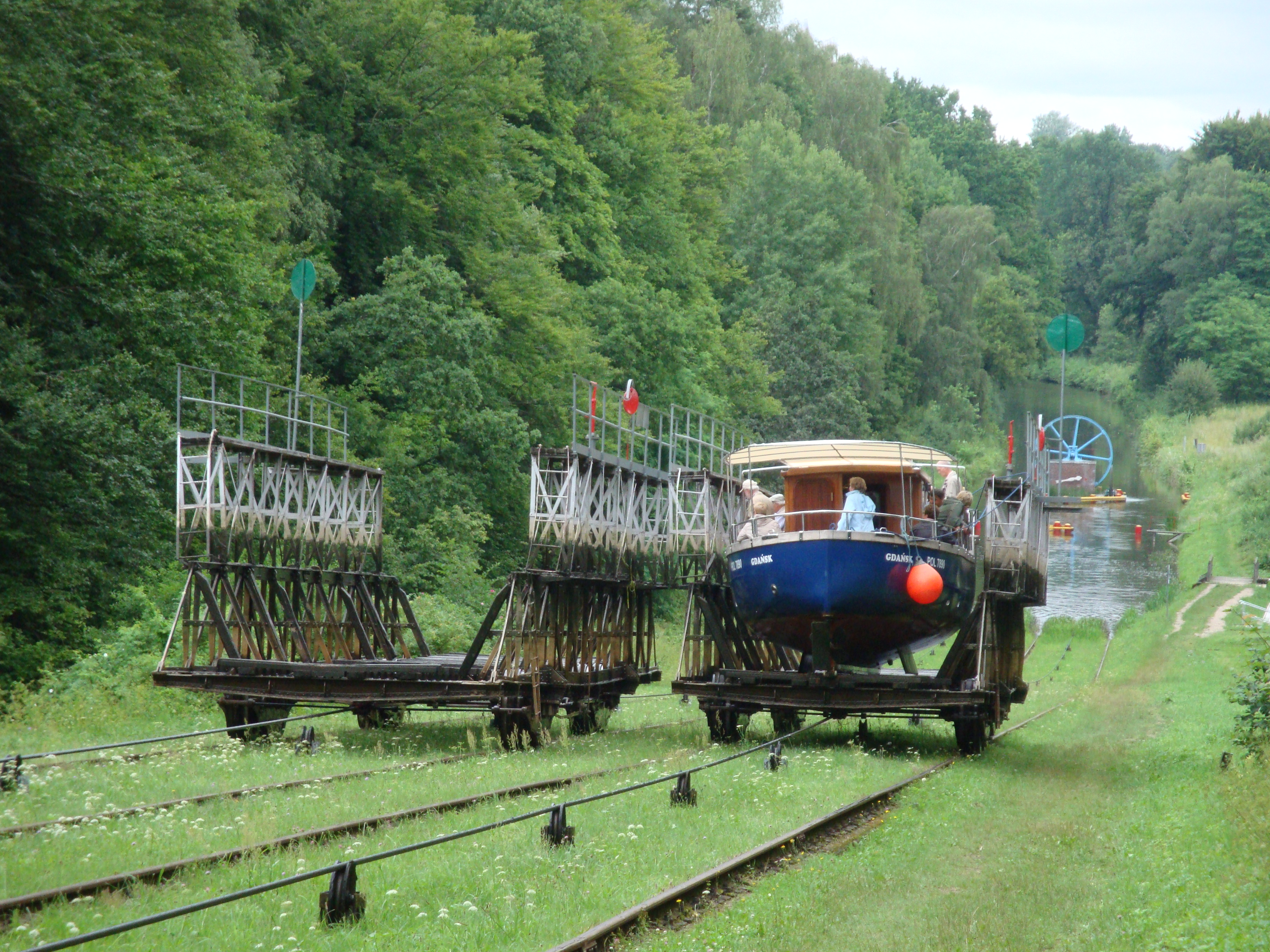 Boat on Elbląg Canal